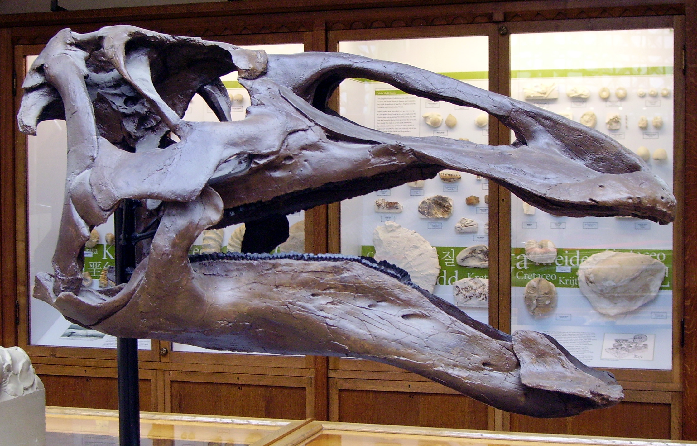 Photographer: User:Ballista Edmontosaurus skull, Oxford University Museum of Natural History.